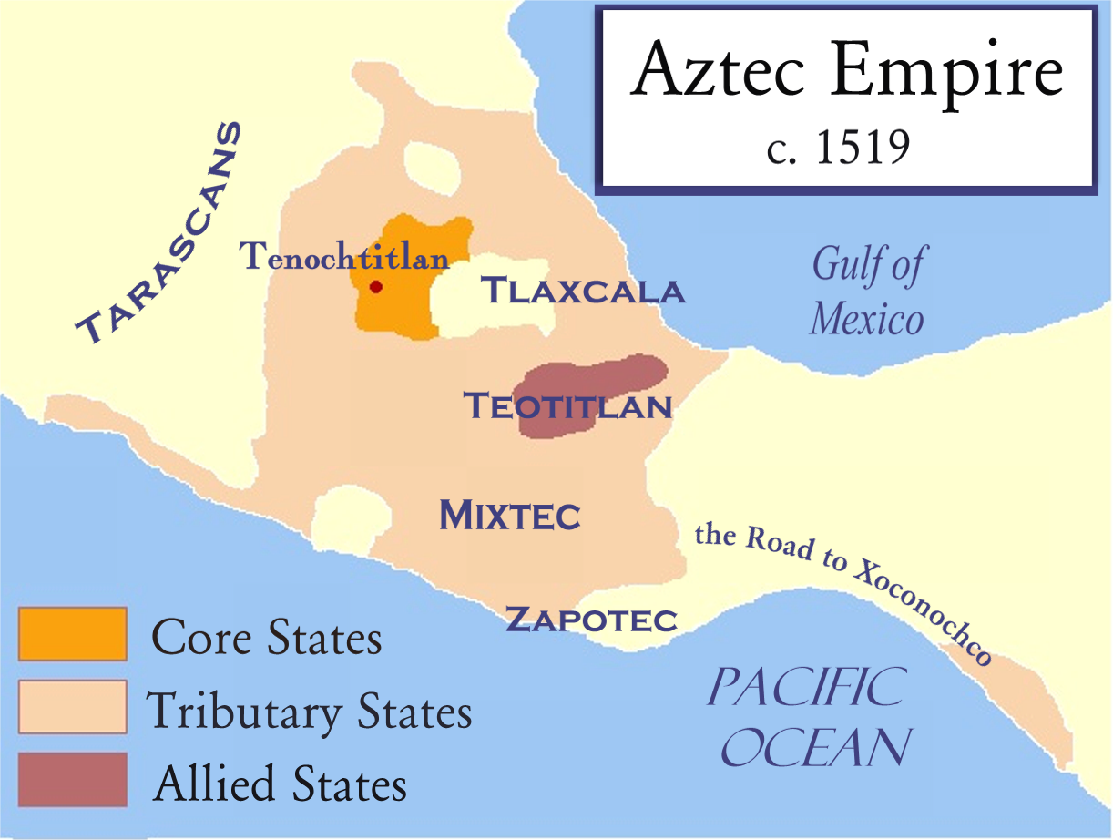 This map represents the core states, the tributary states, and the allies of the Aztec Empire as it stood shortly before the Spanish conquest of Mexico. The borders should be considered very approximate.